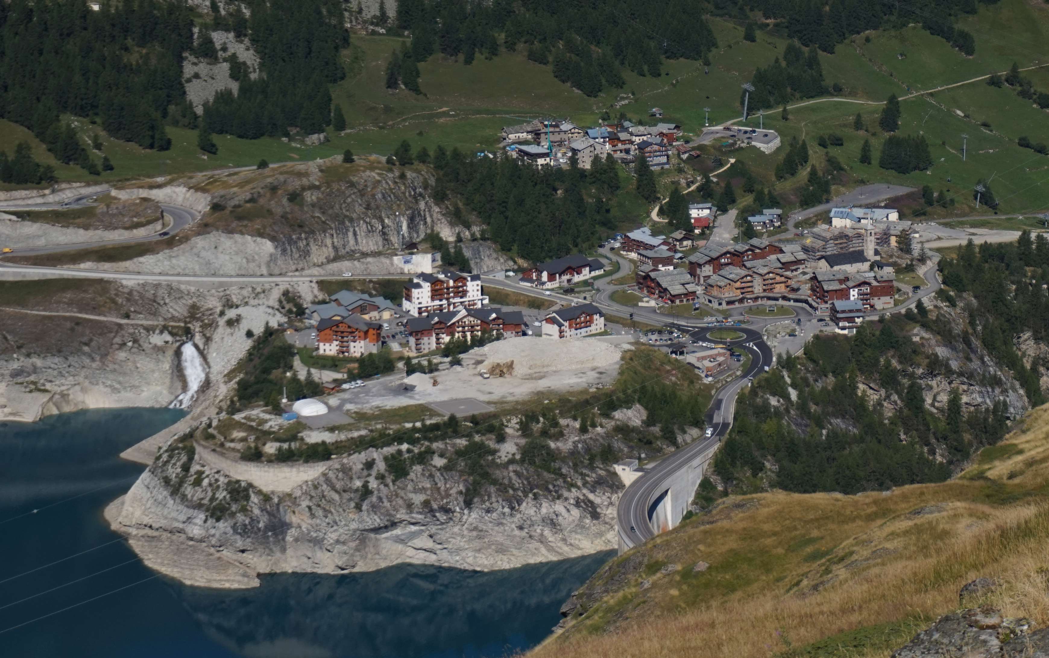 Les Boisses in Tignes. On the left is the lake Lac du Chevril. This photograph was taken with a Sony Alpha a5000.